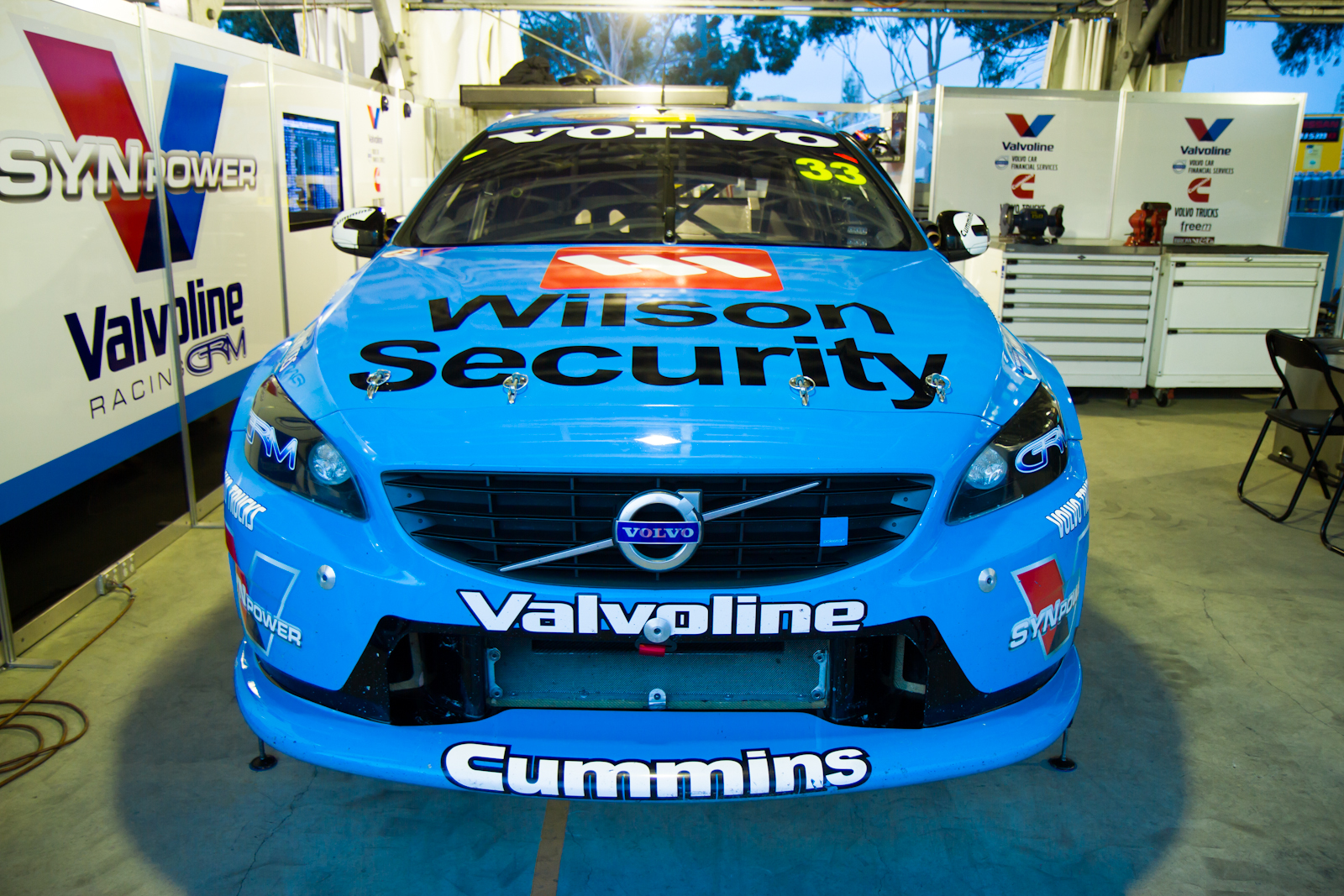 2014 Australian F1 Grand Prix